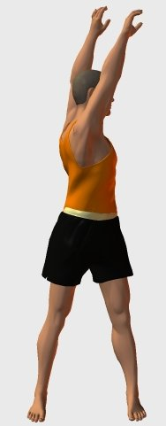 stretching